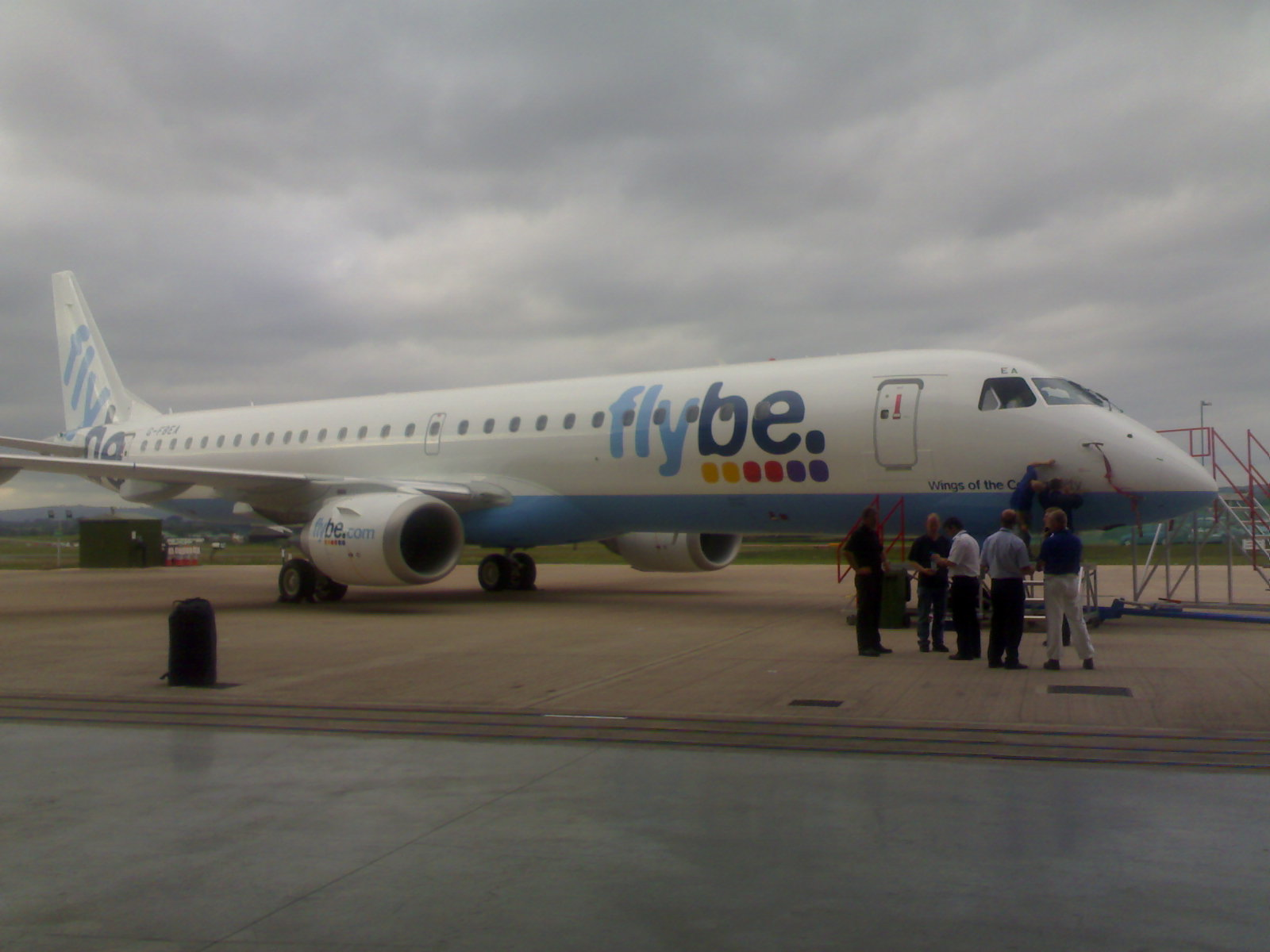 The First Flybe Embraer 195 (G-FBEA) Taken by myself through the hangar doors at Flybes exeter base. The aircraft is having its new name 'Wings of the Community' painted on, ready for its unveiling the next day.